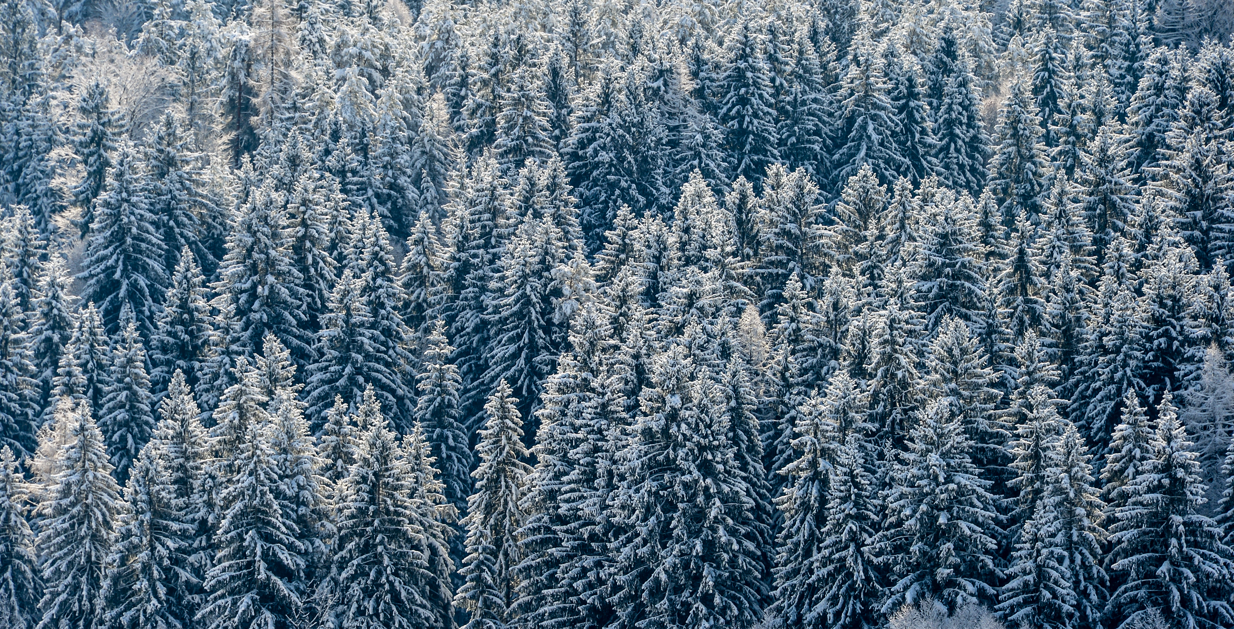 Winterly forest in Saint Martin, municipality Techelsberg am Wörther See, district Klagenfurt Land, Carinthia, Austria, EU